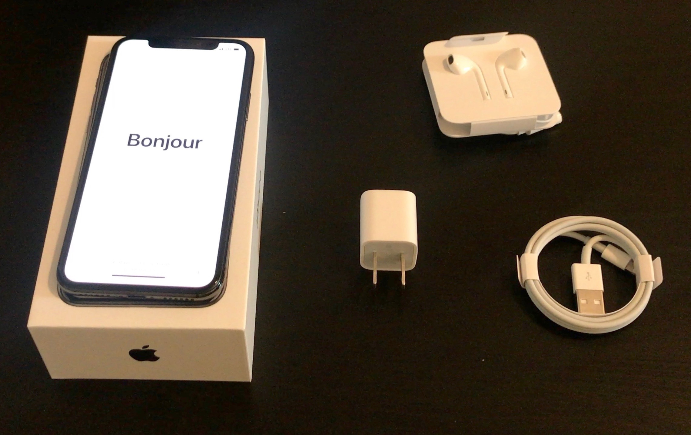 iPhone X with packaging and accessories.